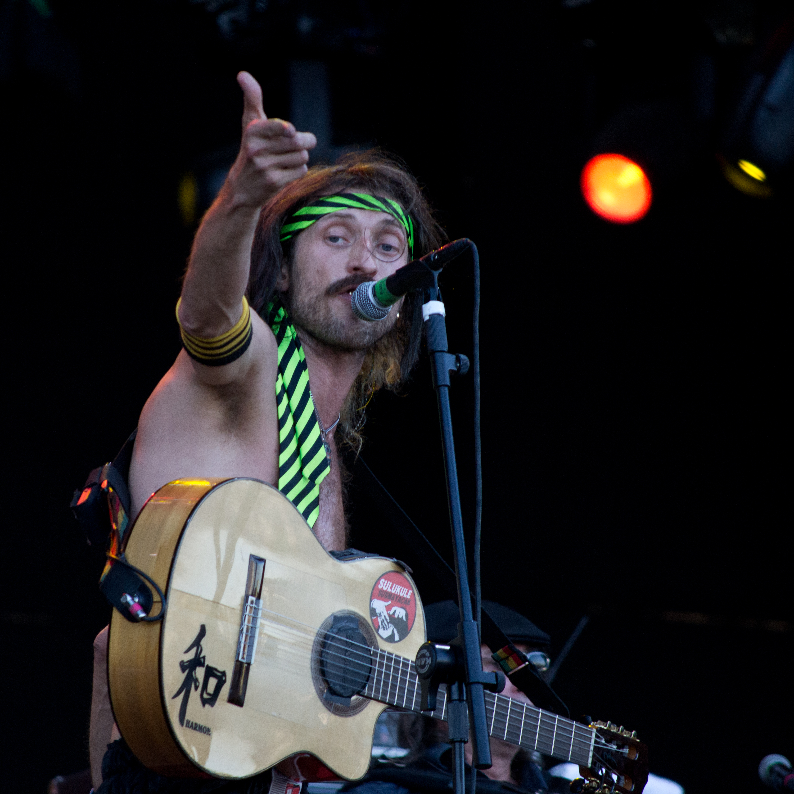 Gogol Bordello in Rock in Rio Madrid 2012.